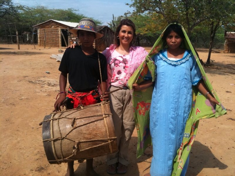 Colombian Journalist Marcella Pulido at La Guajira